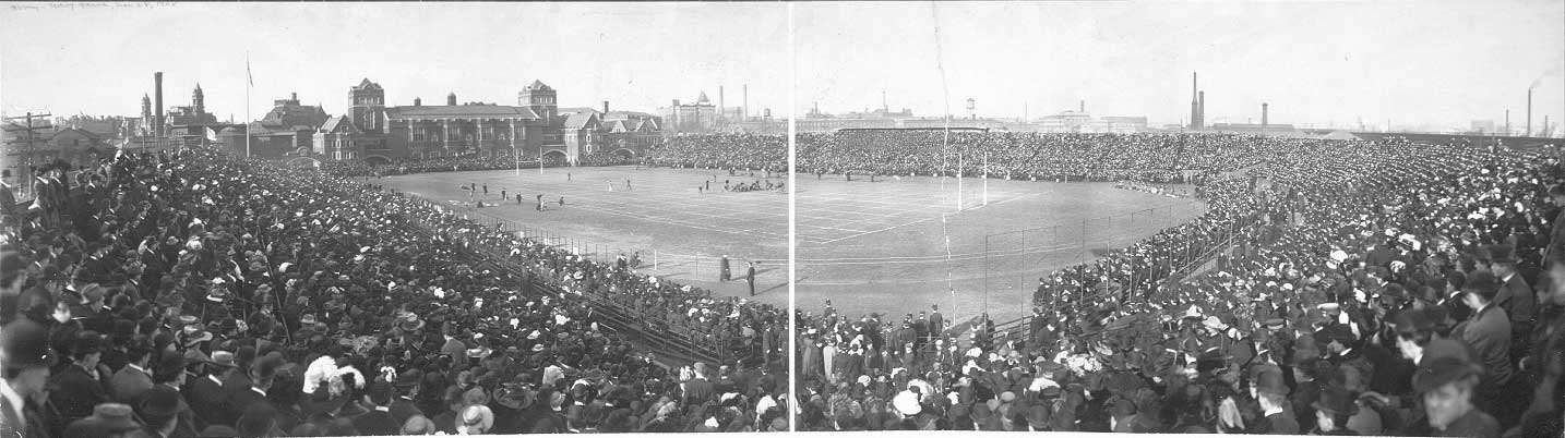 Panoramic photograph of the en:1908 Army-Navy Game at Franklin Field. Note the grid pattern of the markings on the field.